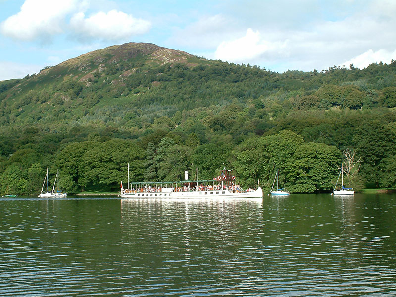 Gummer's How from Lakeside. Photograph by Stephen Dawson, 20 August 2004.